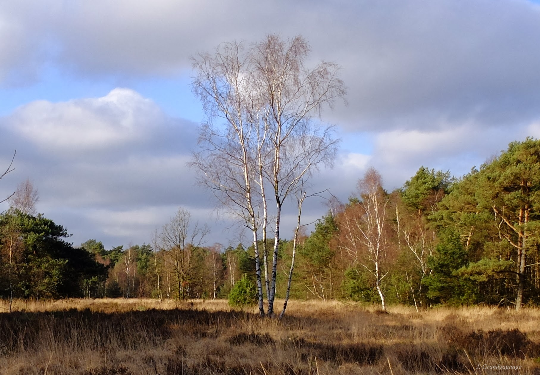 Kalmthoutse Heide in February with birches in the sunlight